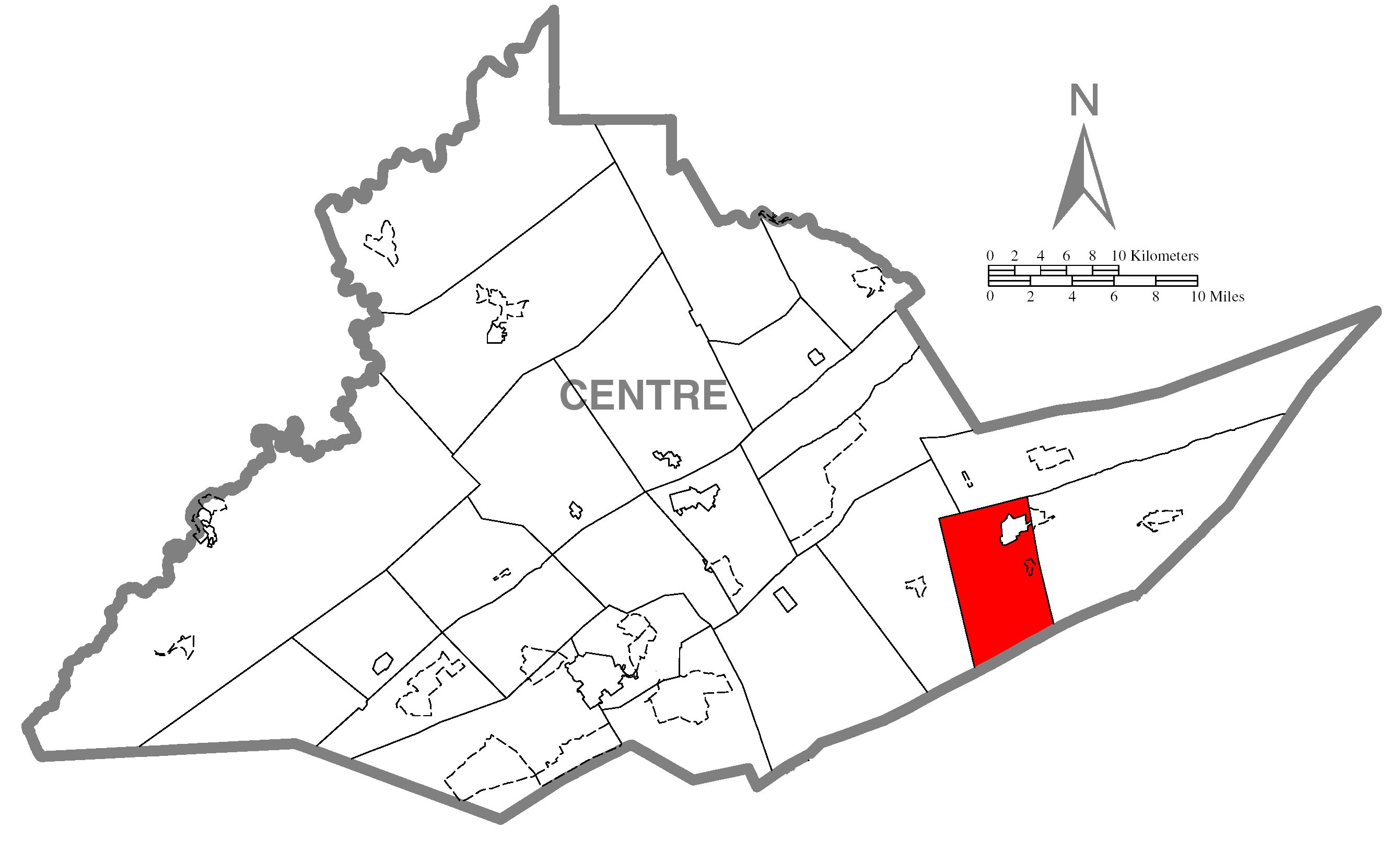 A map of Centre County showing Penn Township, Pennsylvania (alternate) highlighted on the map.